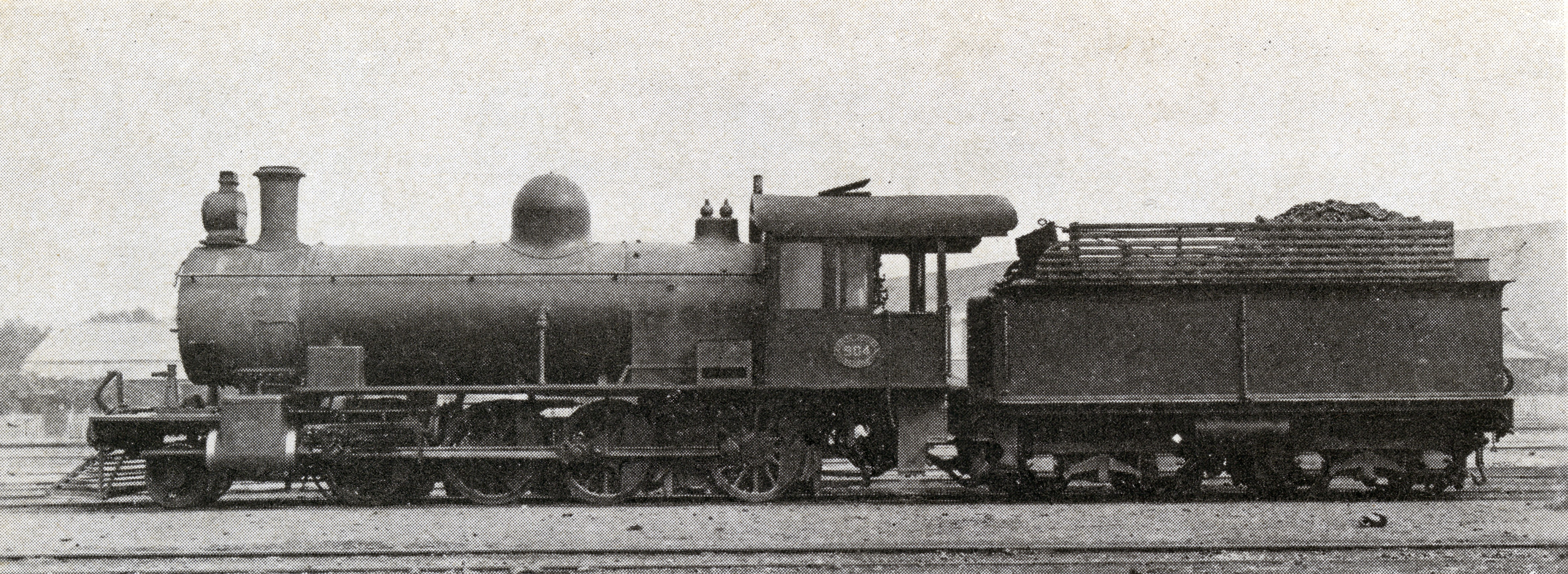 Ex Cape Government Railways Class 8 no. 825 (2-8-0) South African Railways Class 8Z no. 904 (2-8-0) Builder's Number: NBL 16099/1904 Location: Touwsrivier, Cape Province